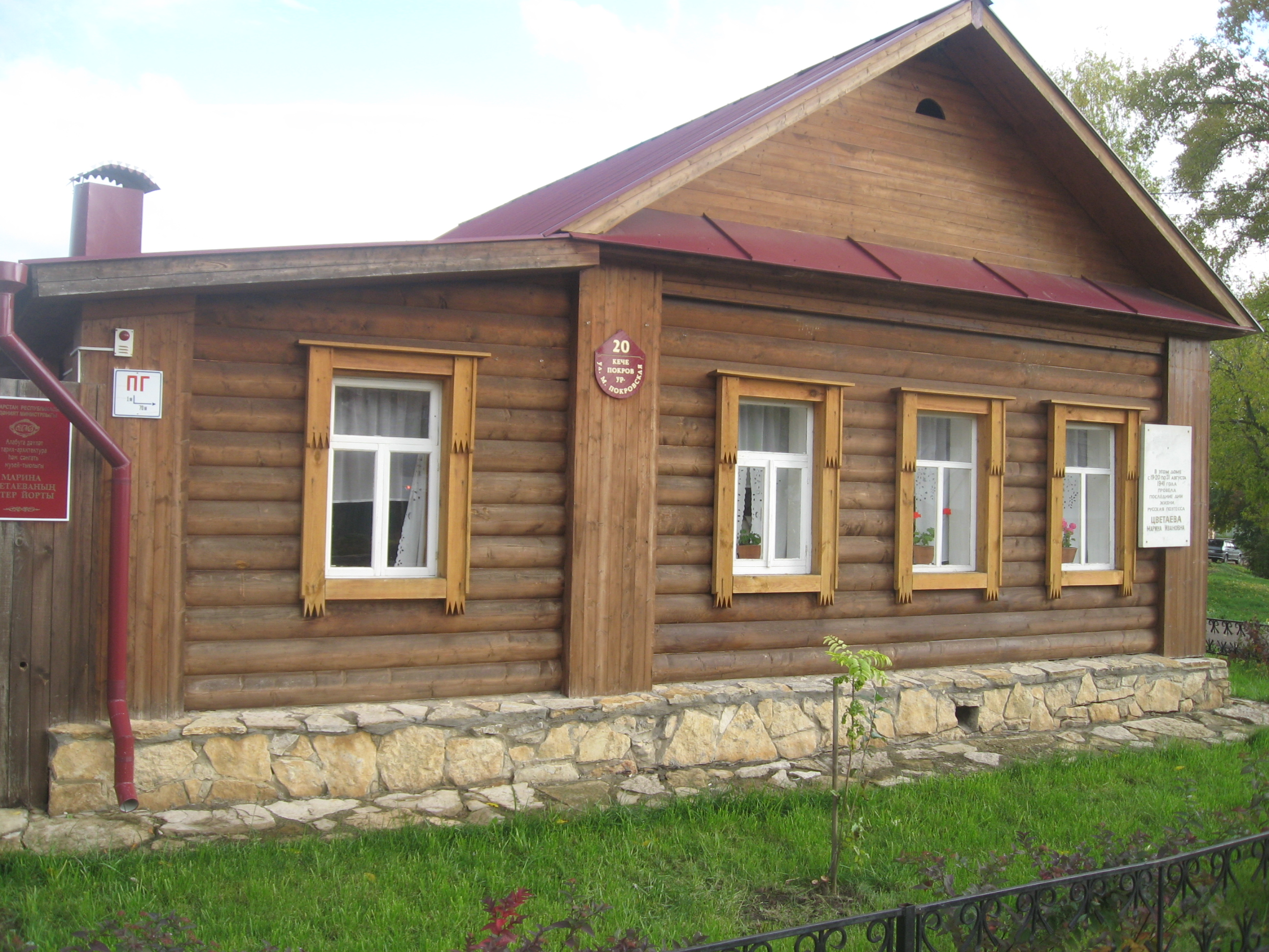 House in Yelabuga where Marina Tsvetaeva committed suicide.